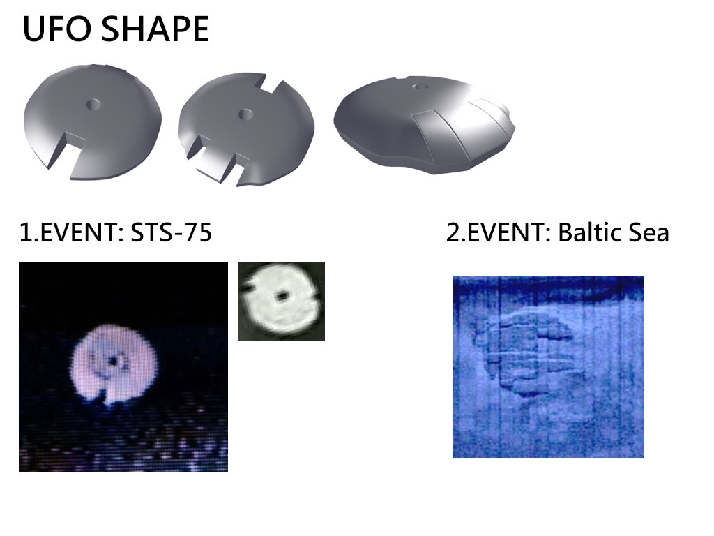 UFO-SHAPE-Disk-with-Three-Gaps